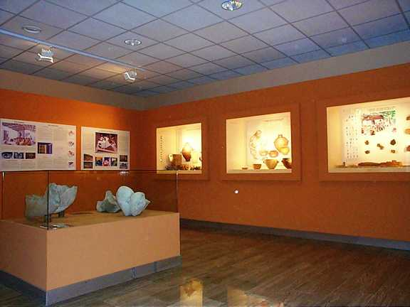 Prehistoric finds, chiefly from the excavations at Armenohori, image from the Archaeological and Byzantine Museum, Florina, West Macedonia, Greece